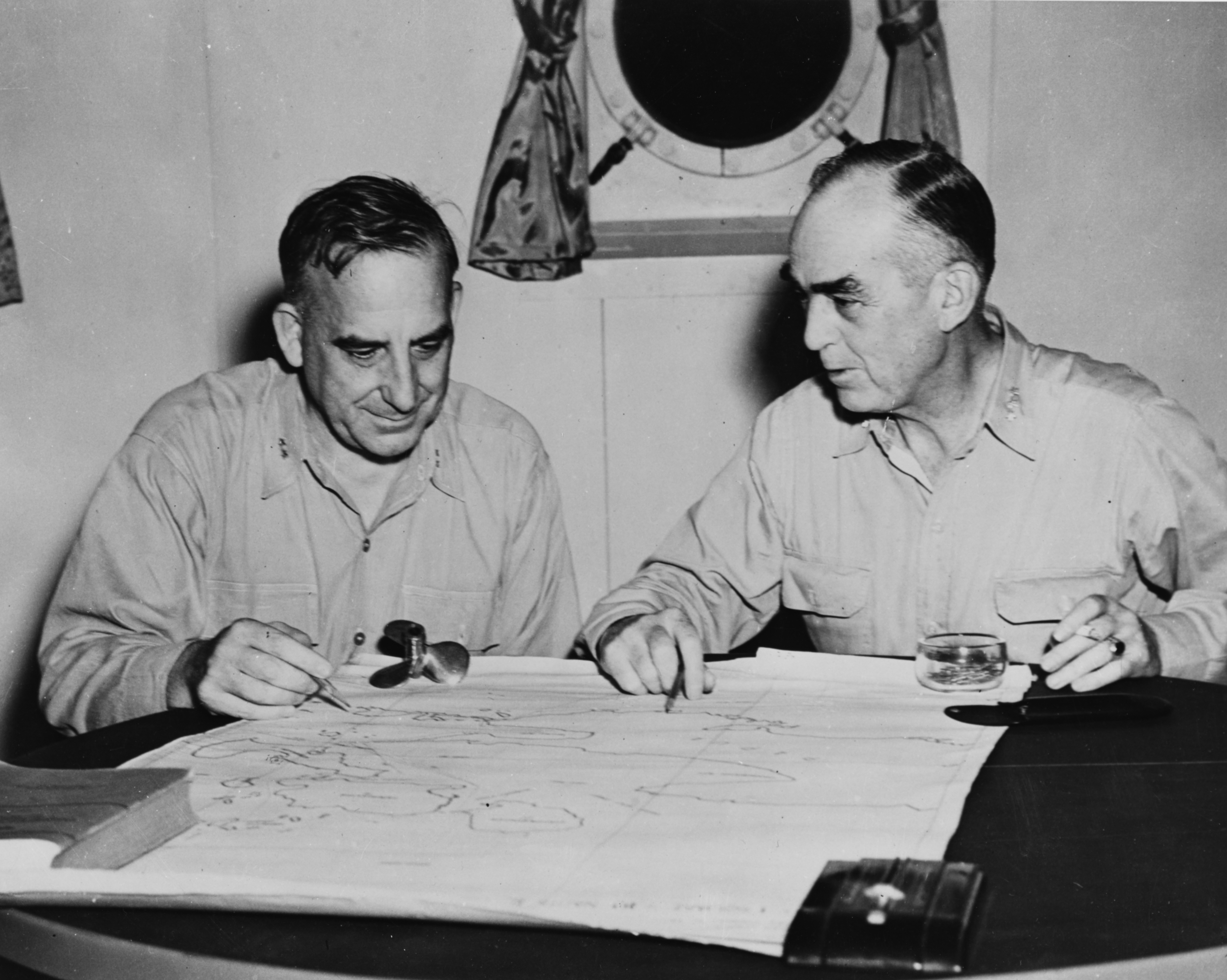 U.S. Navy Vice Admiral Thomas C. Kinkaid, right, and Rear Admiral Daniel E. Barbey confer on board Barbey's flagship, 5 January 1944. They are examining a map of New Guinea. Note the small propeller used as a paperweight. Barbey's flagship was USS Blue Ridge (AGC-2) at that time.